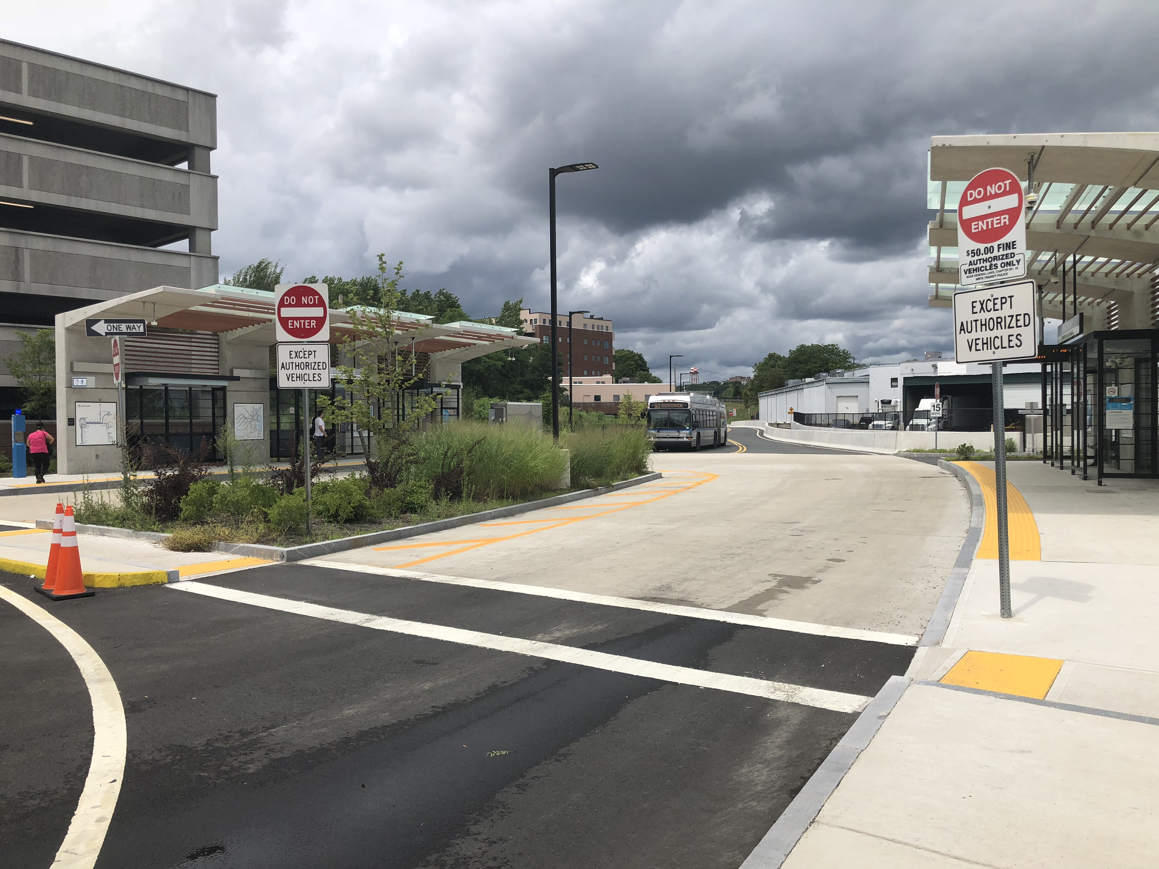 MBTA Eastern Avenue station with SL3 bus